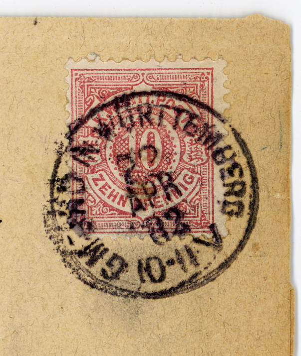 Postmark GMÜND in Württemberg, 1882, on 10 Pfennig, from a letter to Schorndorf.